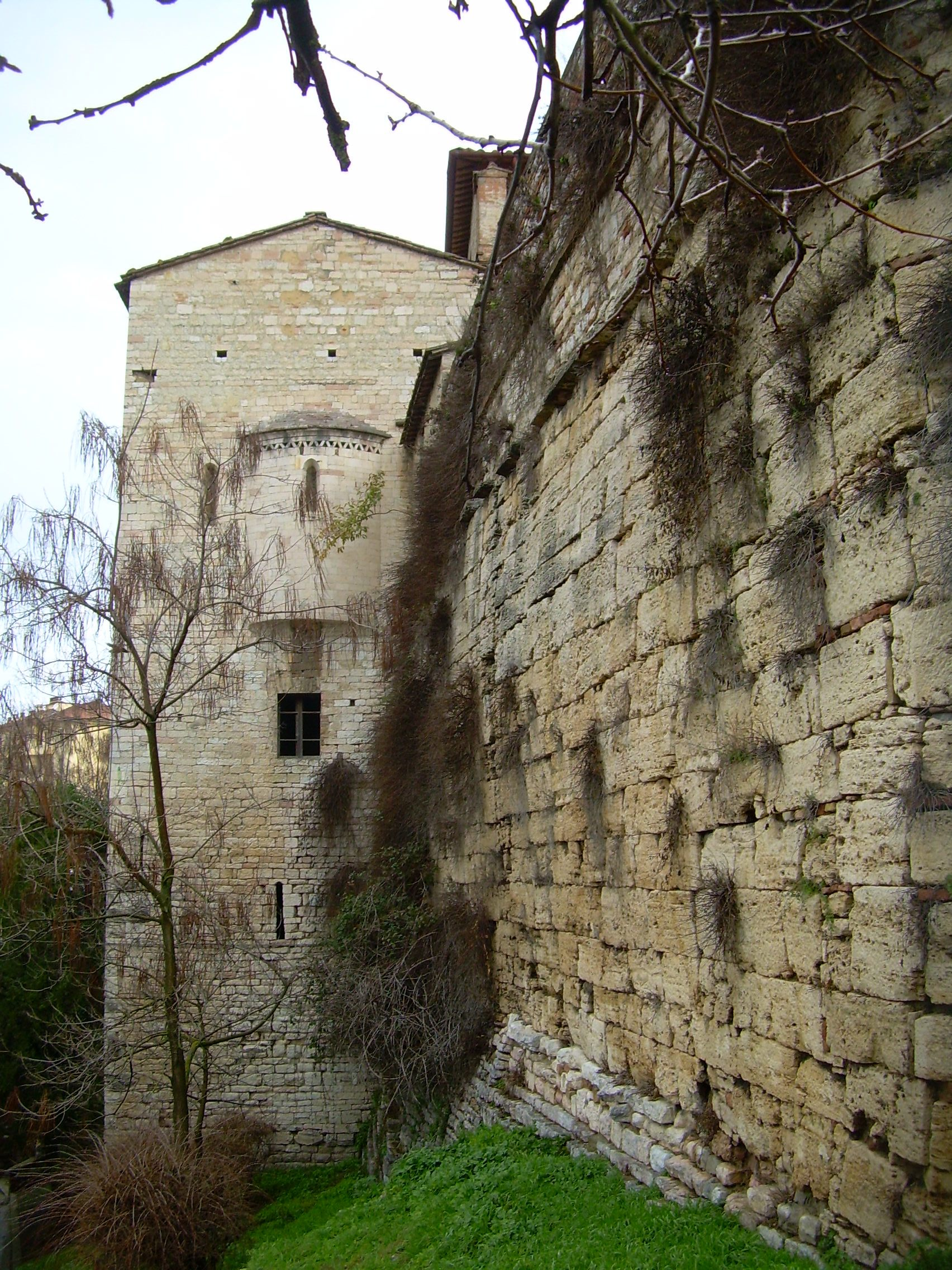 Back of the church of San Benedetto alla Canapina (11th century) In Perugia, with a suspended apse, leaning against the Etruscan walls, consisting of two superimposed classrooms, the lower room allowed access to peasants residing outside the walls.